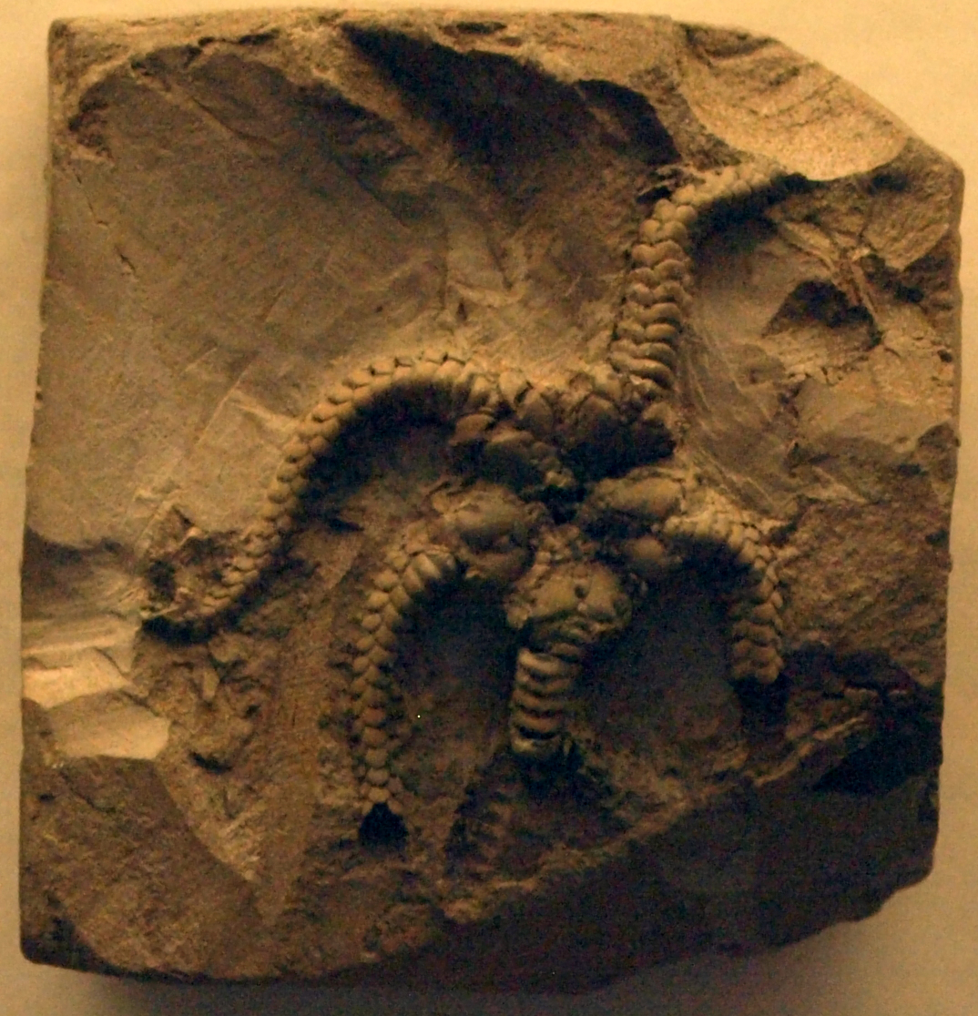 Ophiura wetherelli (Forbes), a type of brittlestar. This example found in London clay, from Bornor Regis, Sussex.